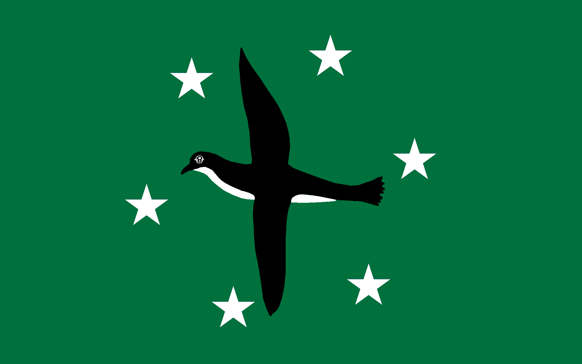 Flag of Ngchesar State Palau